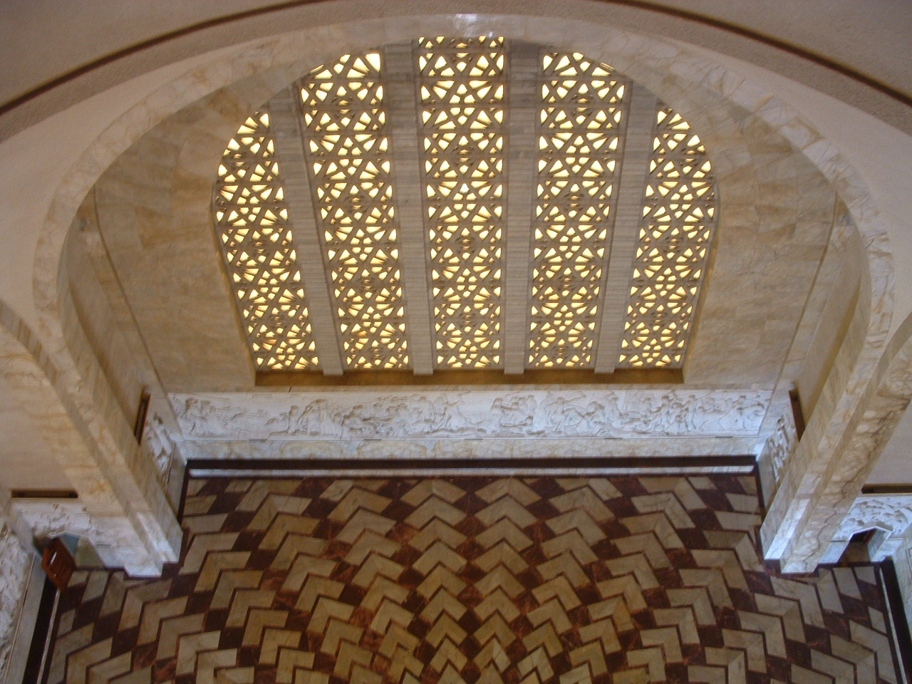 View of the Hall of Heroes in the Voortrekker Monument